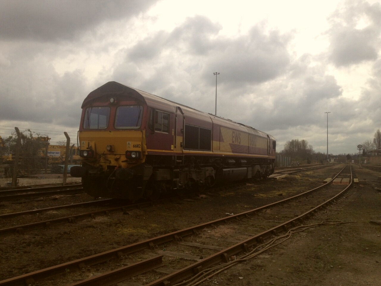 66112 stands alone at what used to be a hive of loco activity...